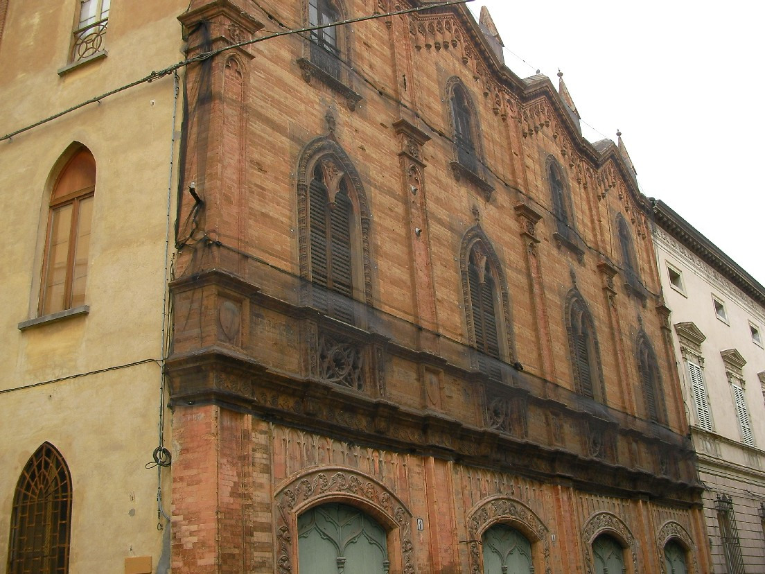 The façade of Palace Valenti to Faenza